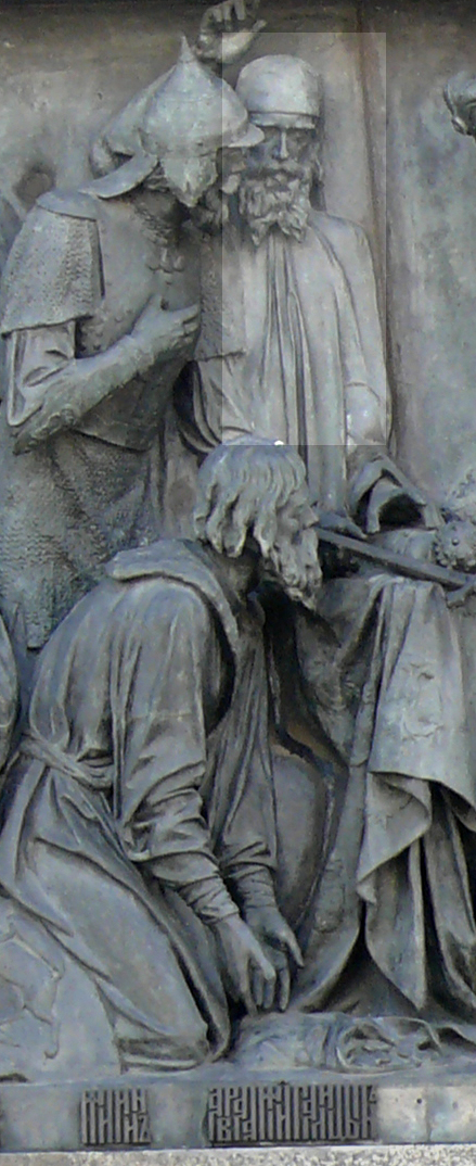 Avraam Palitsyn on the Monument "Millennuim of Russia" in Veliky Novgorod